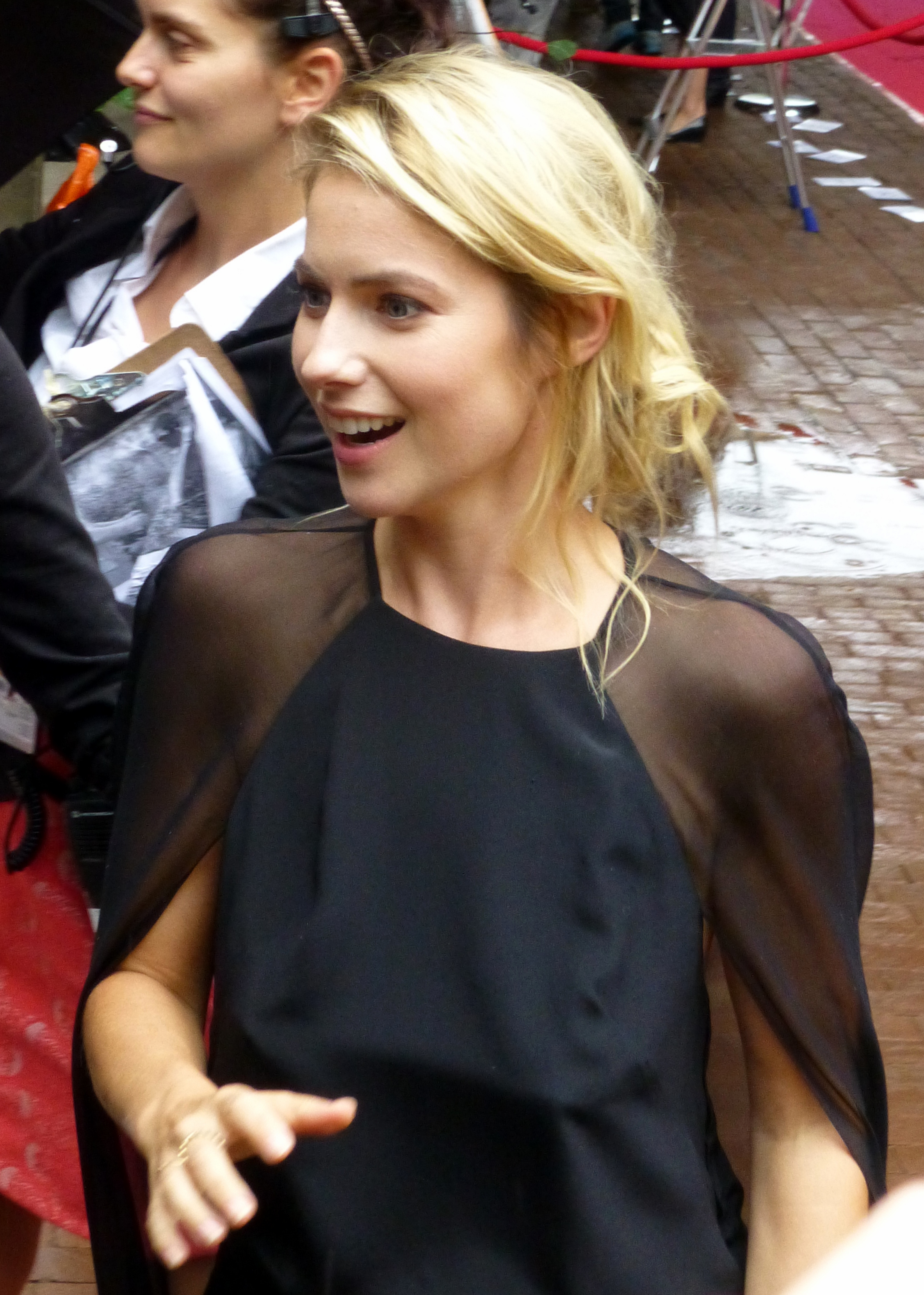 Laura Ramsey at the premiere of You Are Here, Toronto Film Festival 2013 Loved how her sheer minicape was flowing. Kind of looks like a cross of Naomi Watts/Anna Kendrick IMHO.